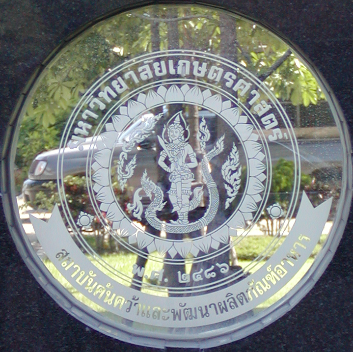 Image of the seal of Kasetsart University, Bangkok, Thailand. Cropped from File:Kasetsart University Thailand Logo Board.jpg